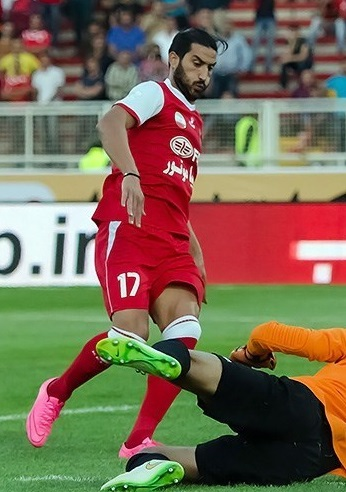 Hamza Younès